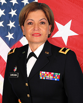 Brig. Gen. Marta Carcana